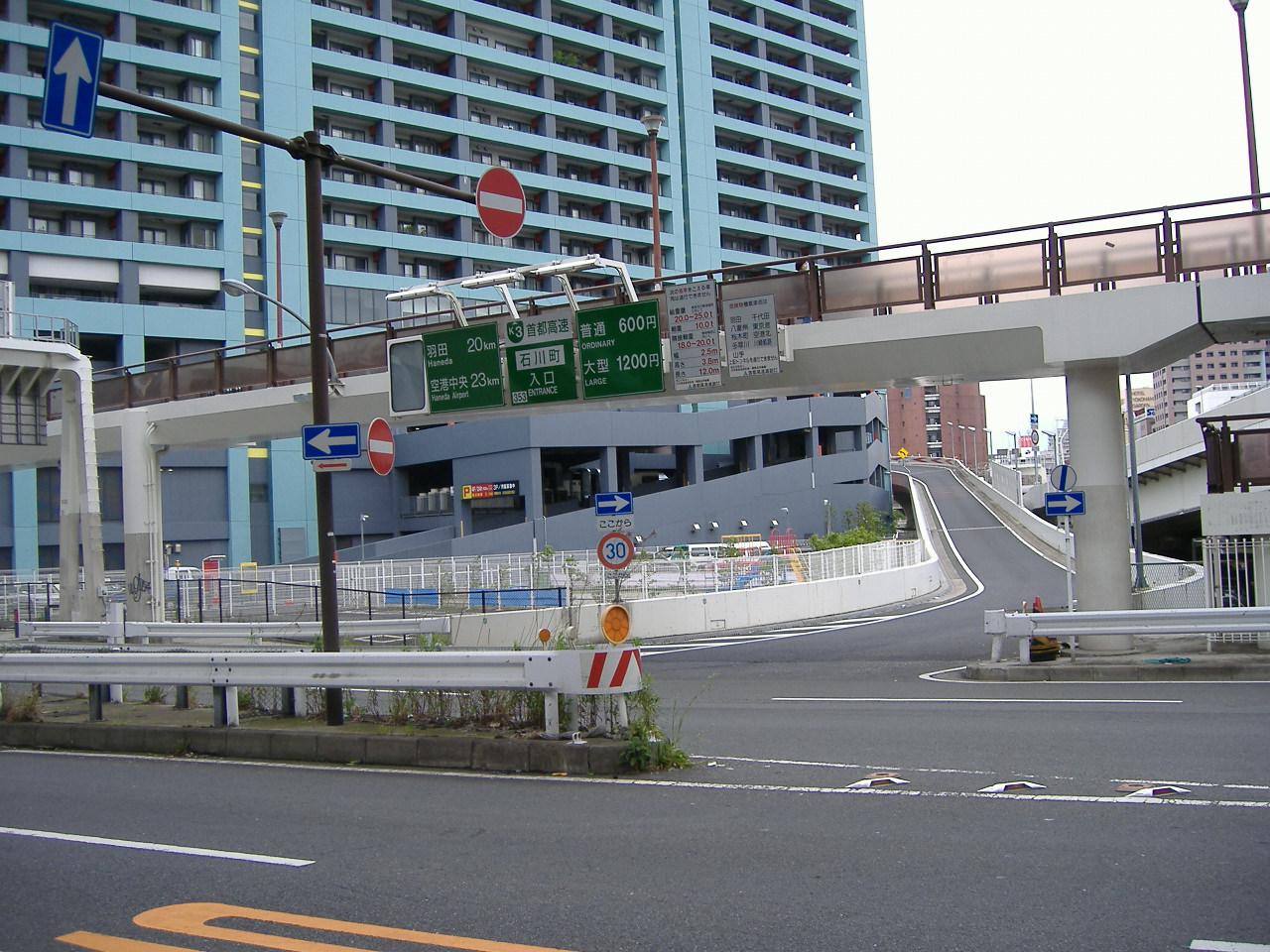 Metropolitan Expressway, Ishikawacho Entrance(Yokohama,Japan)